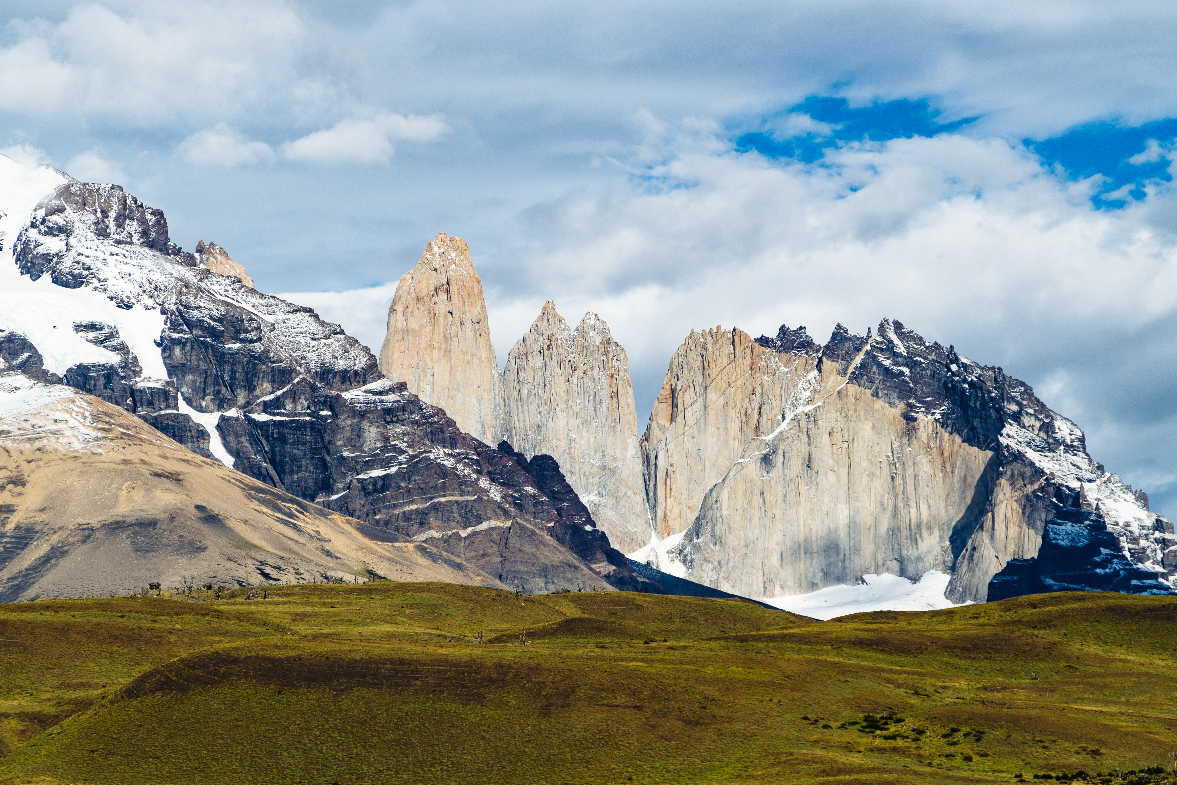 View from the National Park Reception to Torres del Paine Torre Sur Torre Central Torre Notre Nido de Condores